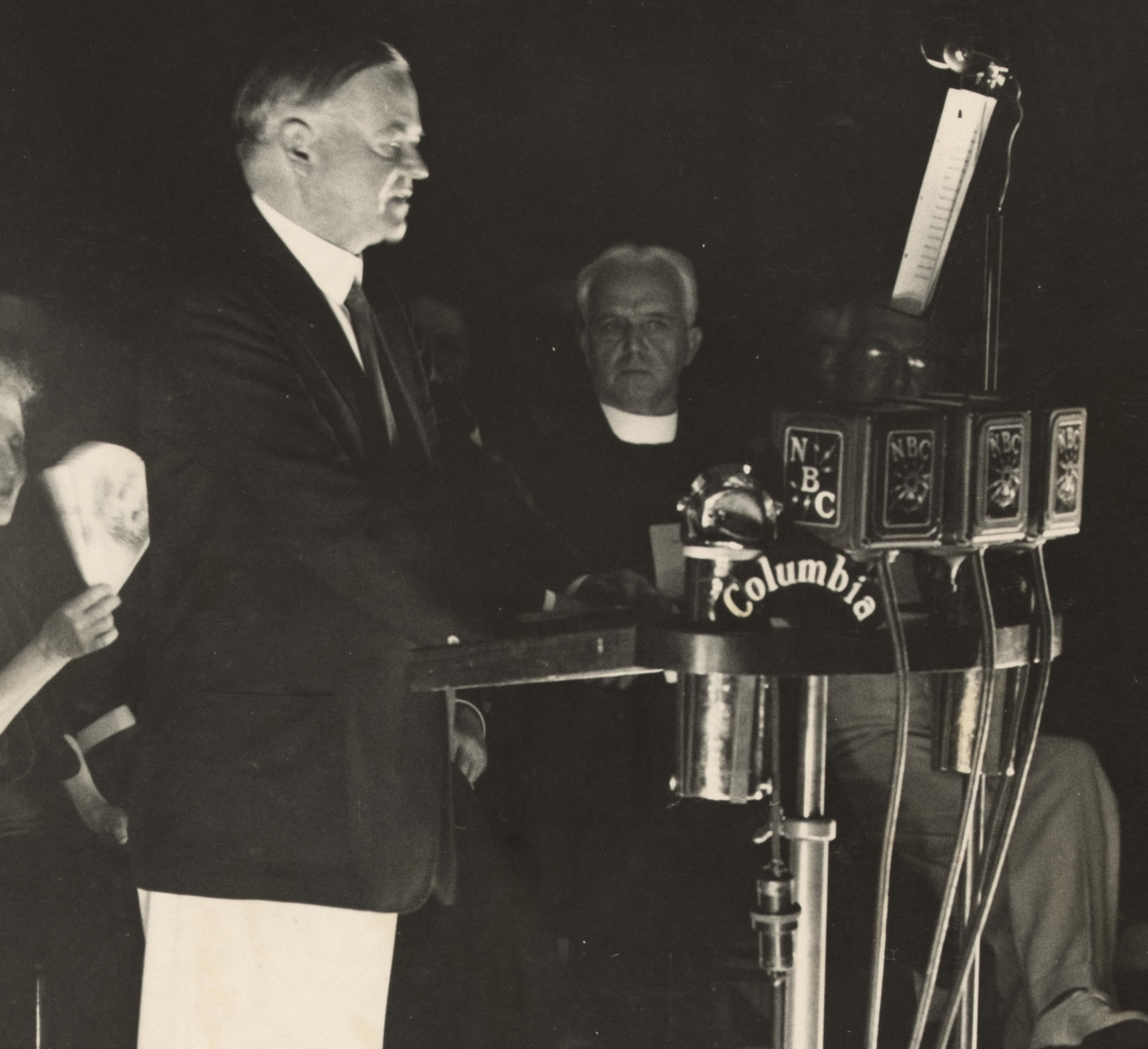 Photo shows President Herbert Hoover at Constitution Hall in Washington, D.C., standing at a podium with NBC-Columbia microphones as he reads his acceptance speech for the 1932 Republican Party nomination to run for a second term as president.